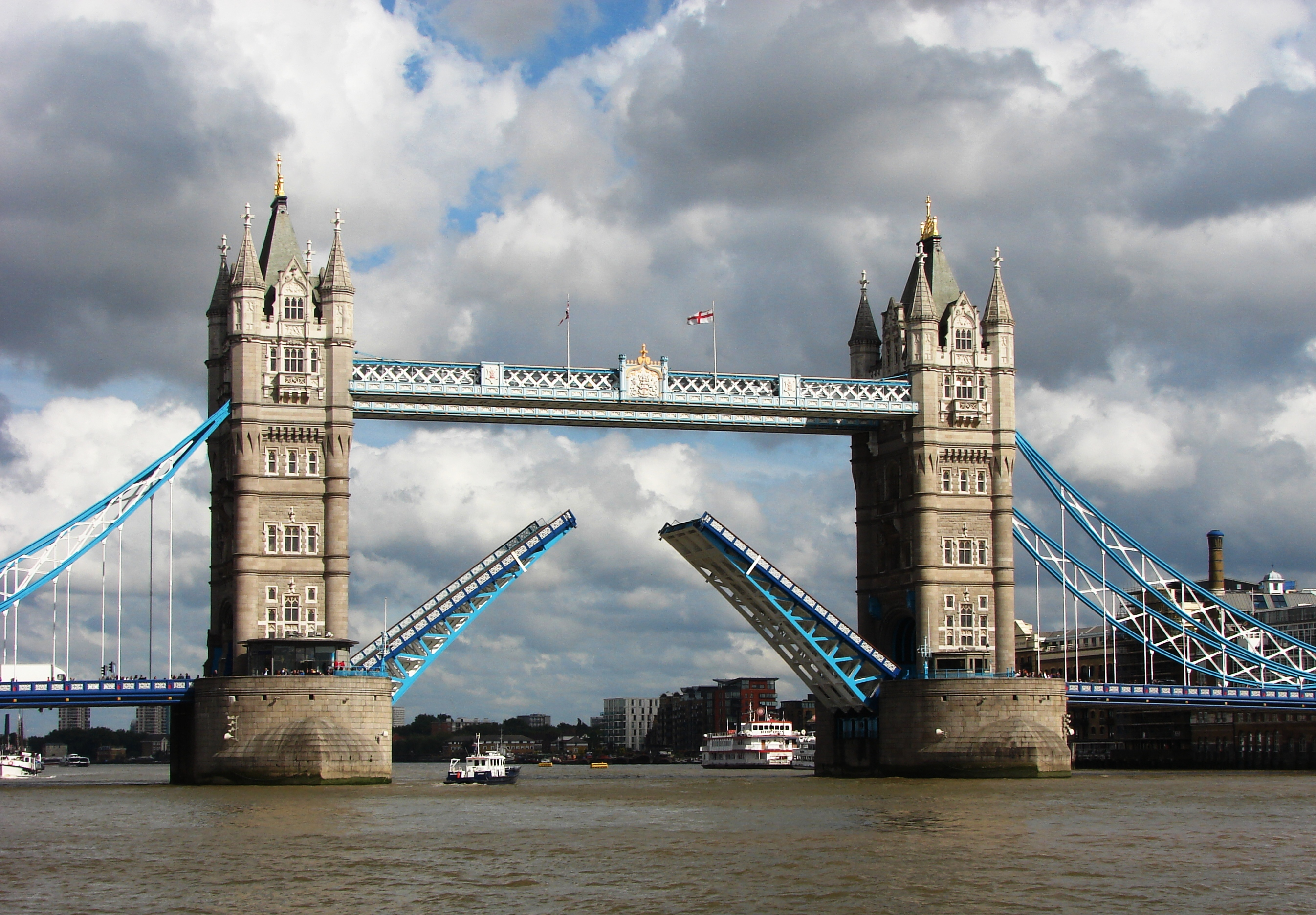 Tower Bridge,London Getting Opened 5